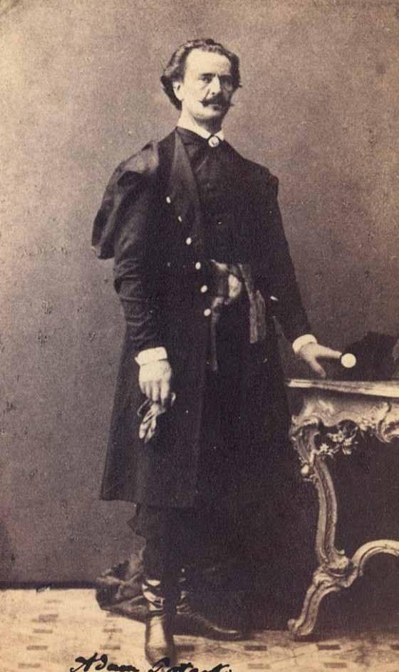 Count Adam Potocki